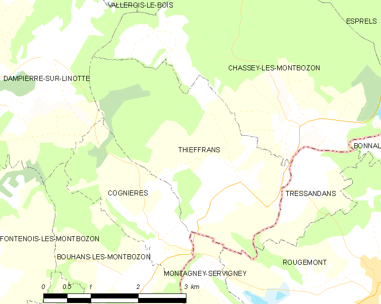 Map of French municipality